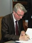 Safet Halilović while signing the Hague Convention on the International Recovery of Child Support and Other Forms of Family Maintenance at the Depositary (ministry of foreign affairs of the Netherlands) on July 5, 2011